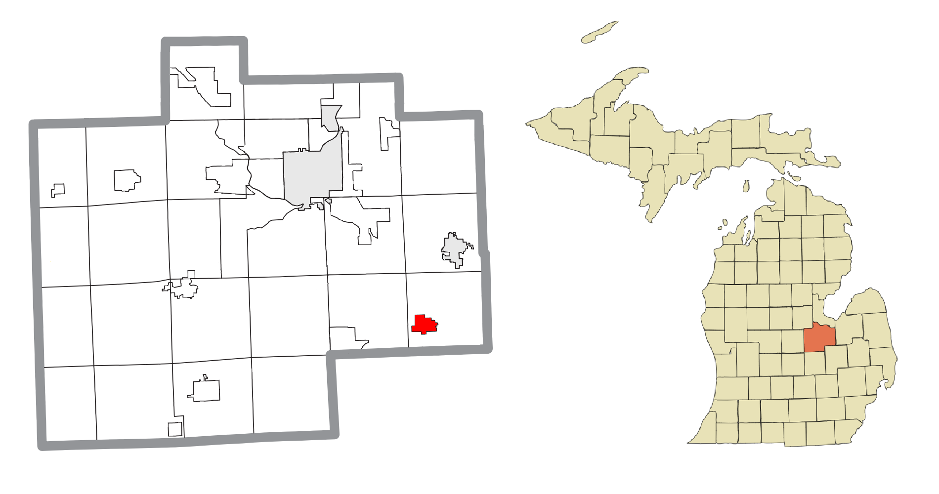 Birch Run, MI